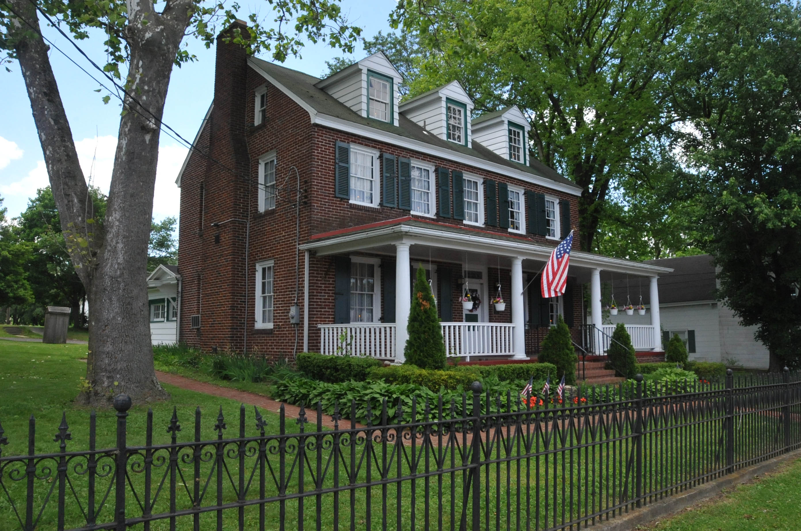 BUILT CIRCA 1843